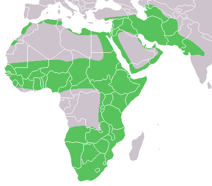 Geographic distribution of the caracal(Caracal caracal)